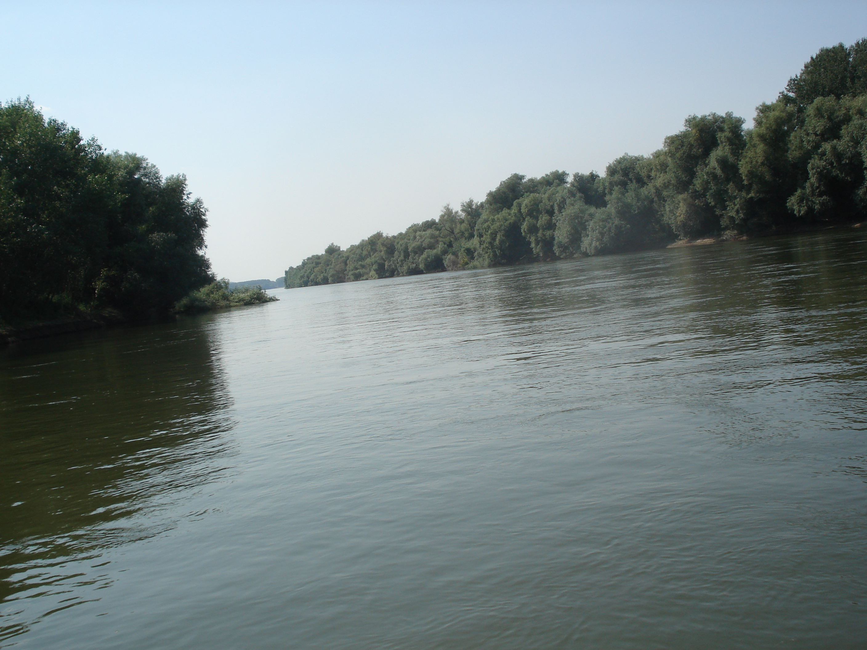 on the Danube river